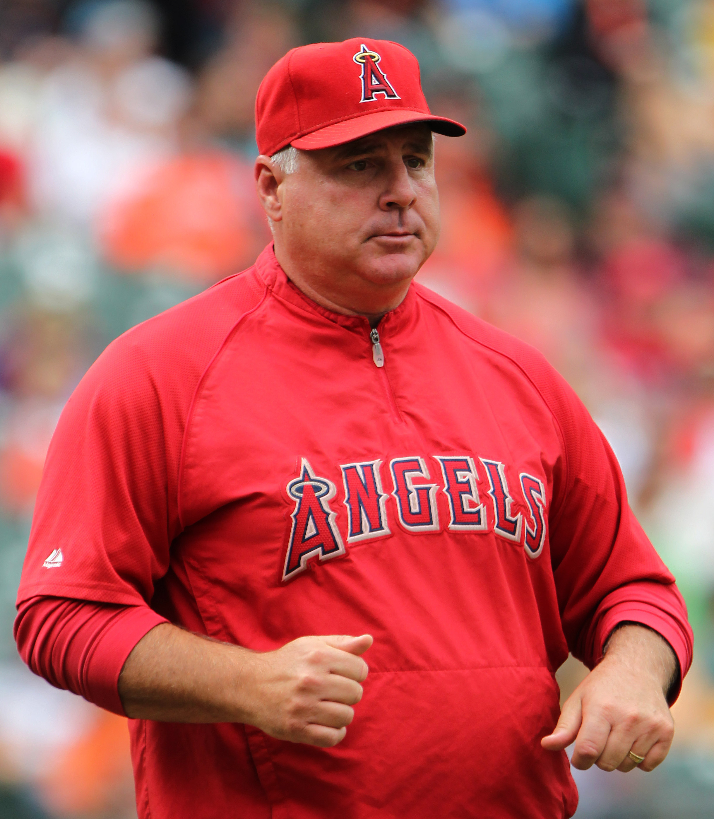 Angels at Orioles September 18, 2011